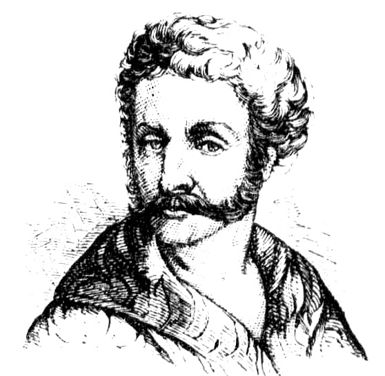 Athanasios Christopoulos (1772-1874): Greek poet and writer, illustration from Imerologion Skokou 1888.